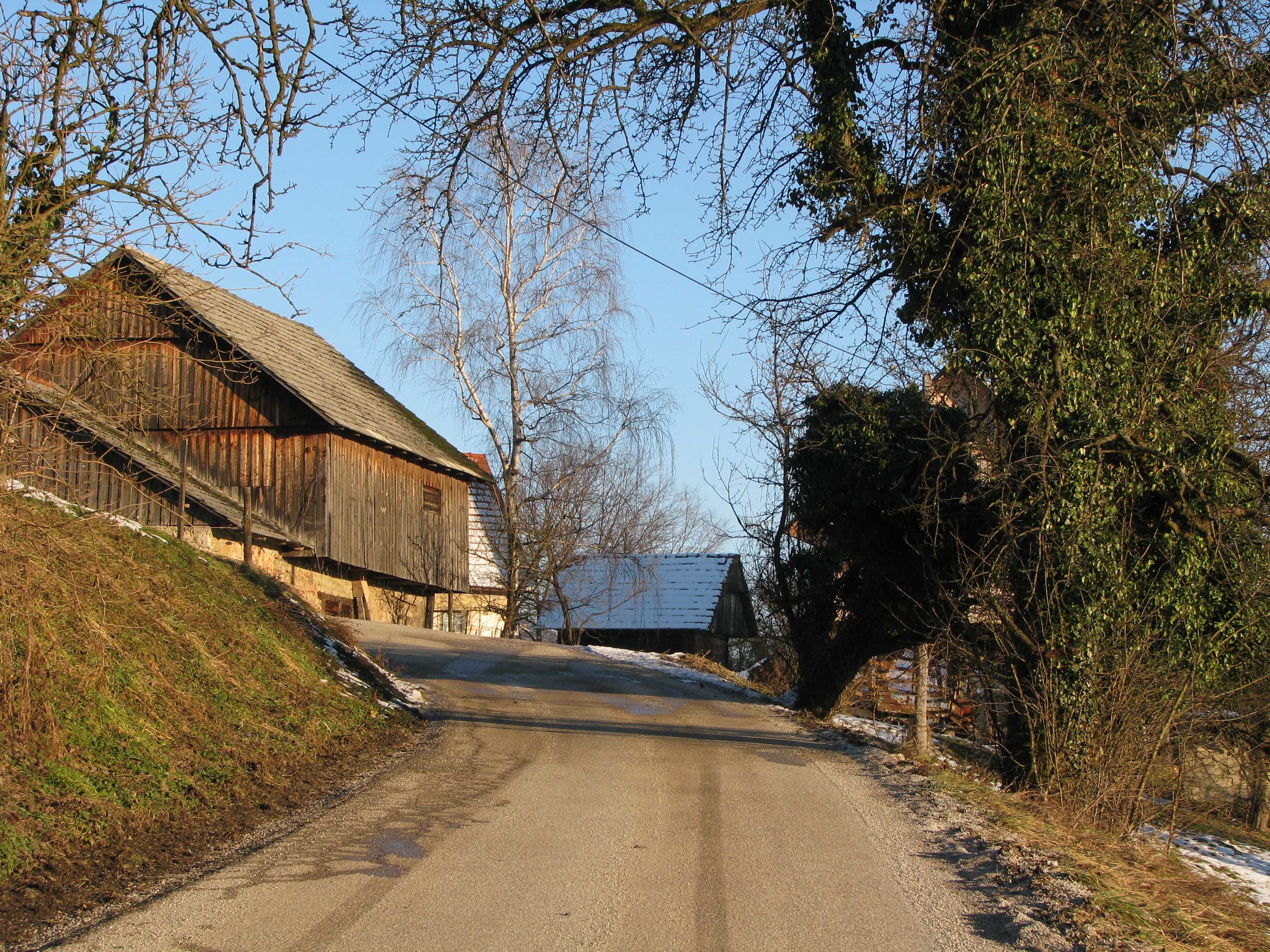 Local road Radeče-Dobovec in the village of Jelovo.